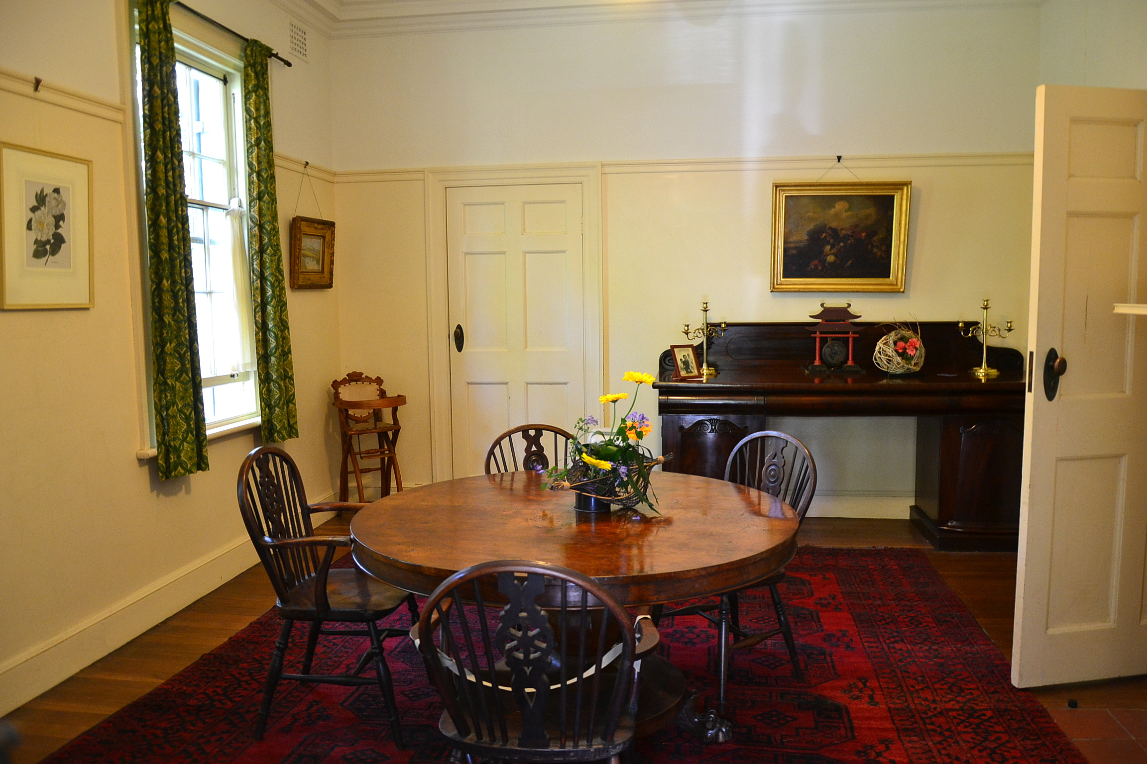 Eryldene, Killara, Sydney